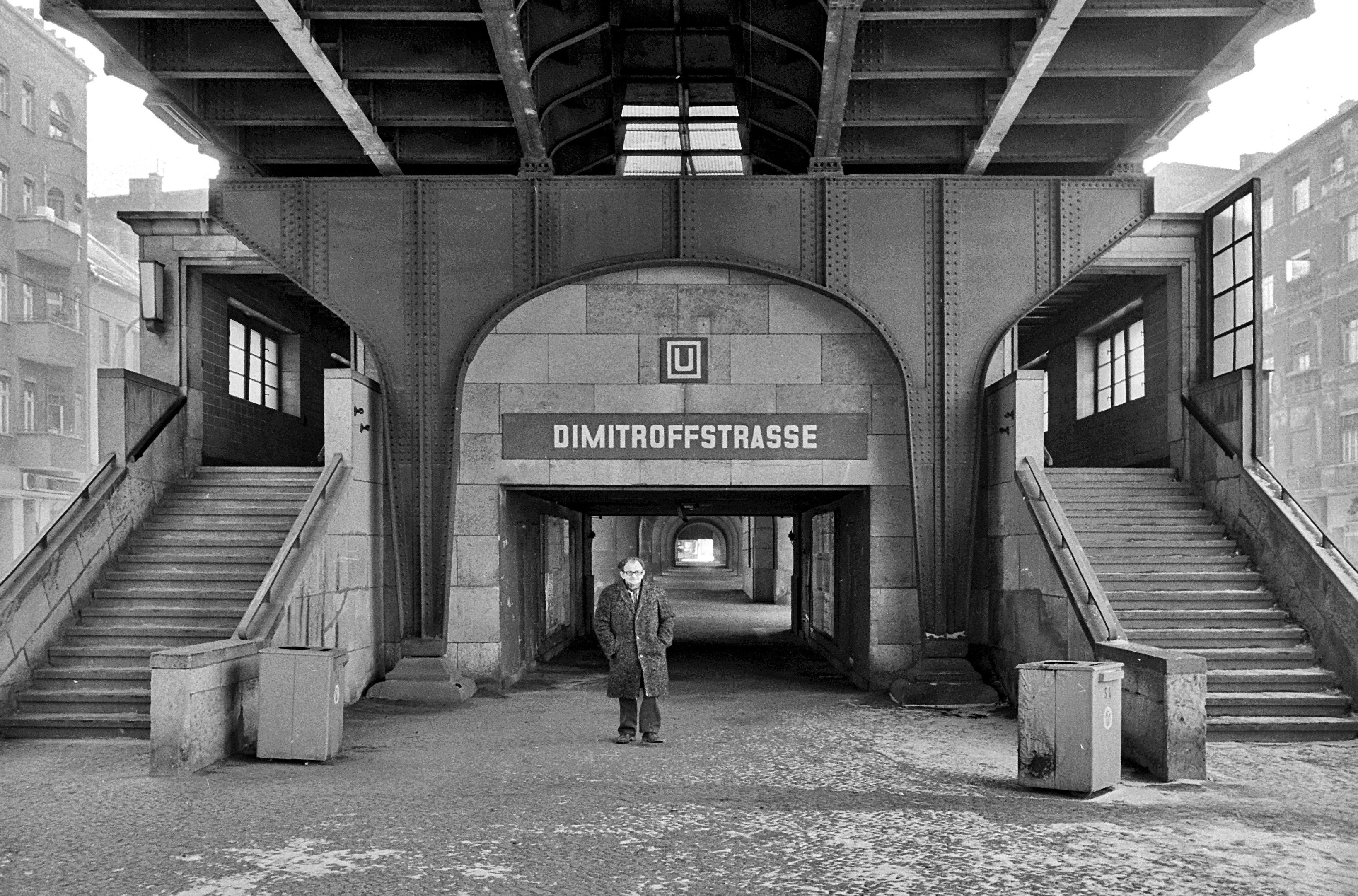 Dimitroffstraße underground station (today Eberswalder Straße), northern exit, East Berlin, GDR